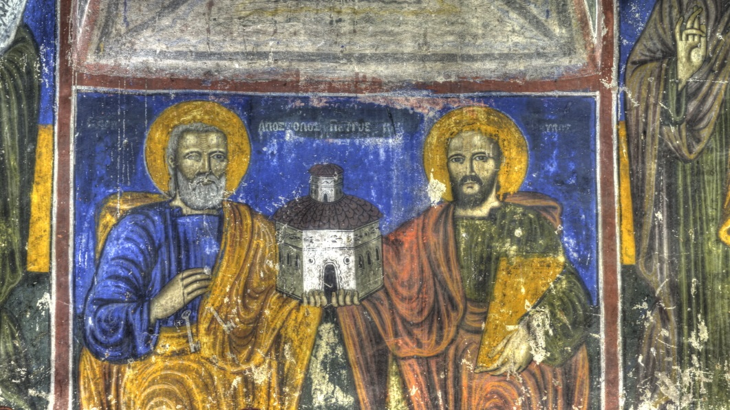 Saint_Athanasius_Church_Angistro_Sengelovo_Fresco